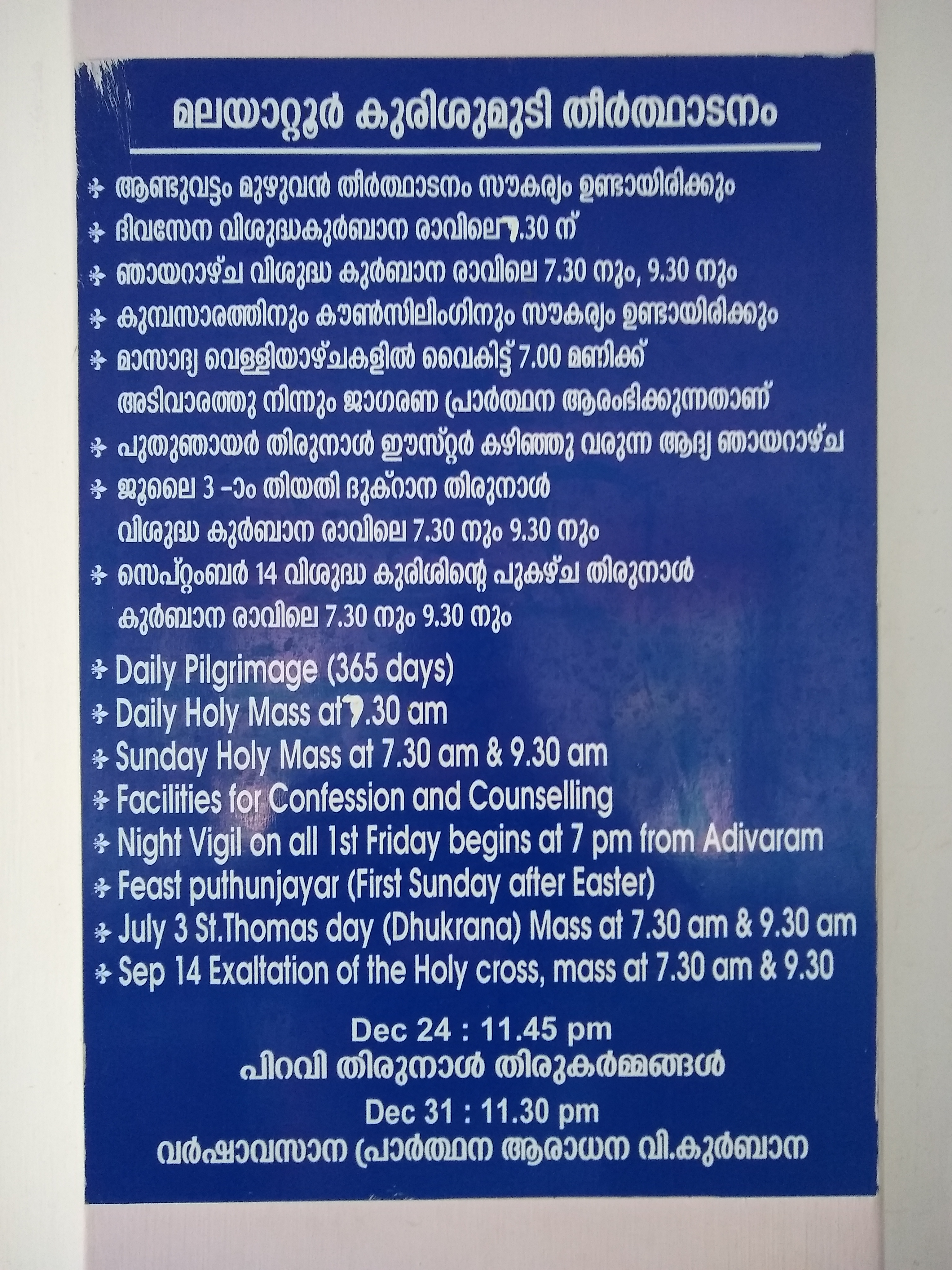 Mass timings and other information at St Thomas Shrine Malayatoor